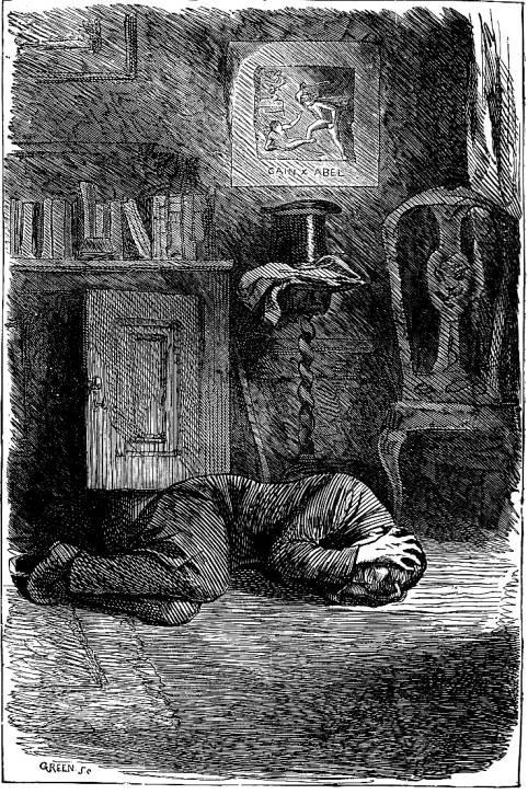 Marcus Stone's illustration for Book 4, "A Turning," Chapter 7, September, 1865, instalment.